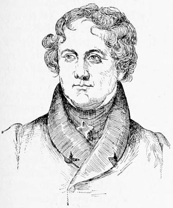 Portrait drawing of United States banker Nicholas Biddle